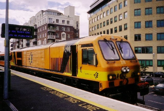 Iarnród Éireann train at Grand Canal Dock station Hauled by Class 201 General Motors 3,200hp diesel loco no. 215. This loco is now (Jan 2008) listed as carrying the name An Abhainn Mhor (River Avonmore), but no nameplate can be seen on this photo